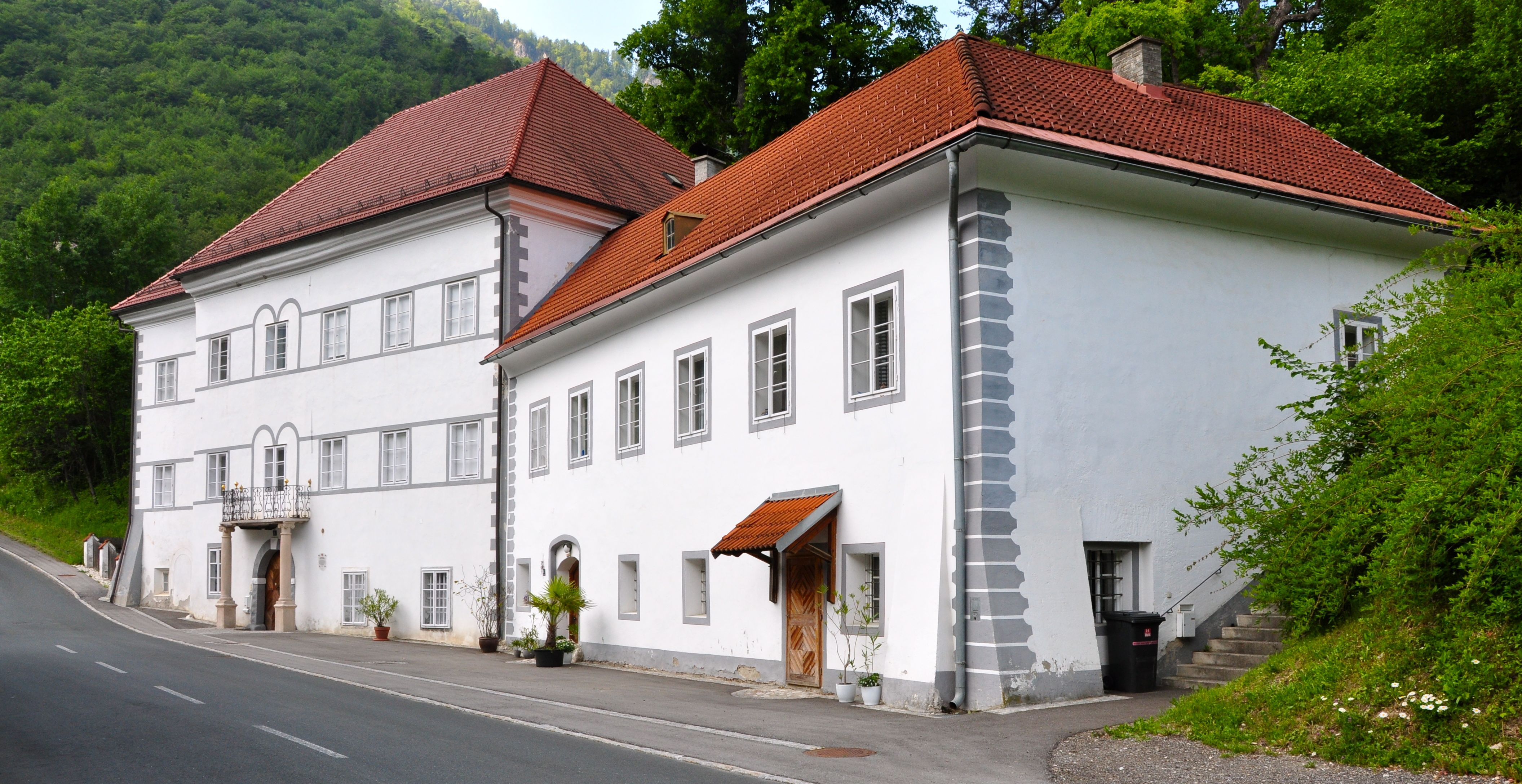 Mansions at Unterloibl #31 and #44, municipality Ferlach, district Klagenfurt Land, Carinthia, Austria, EU